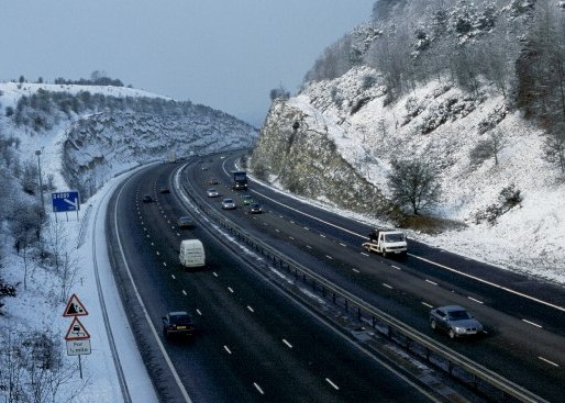 View west along the M40 motorway cutting through the Chilterns southeast of Lewknor; winter 2004